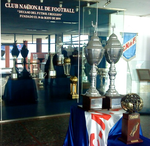 The Uruguayan Cup 2010-11 and other trophies won by Nacional (Uruguay).